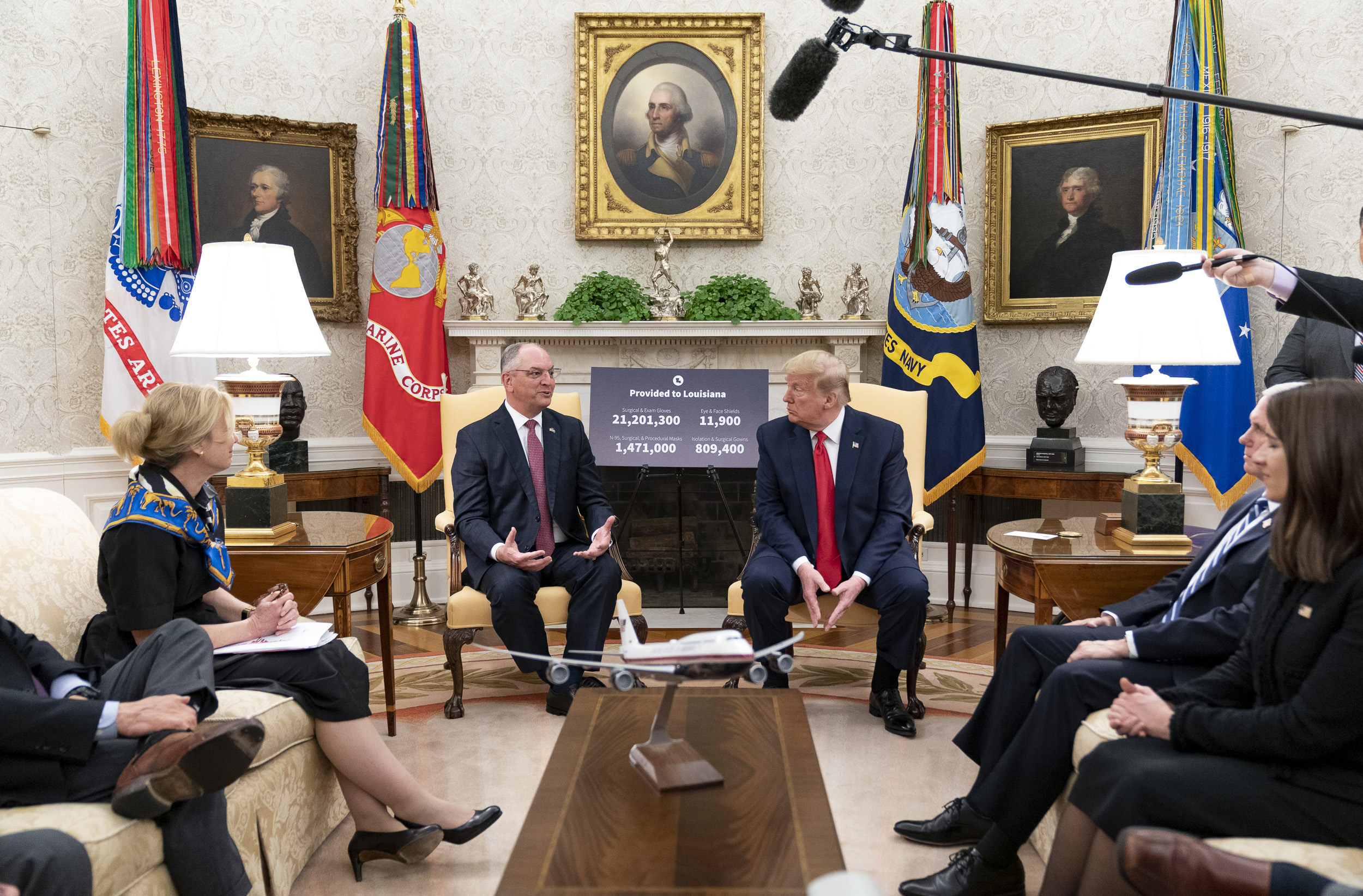 President Donald J. Trump meets with Louisiana Gov. John Bel Edwards Wednesday, April 29, 2020, in the Oval Office of the White House.(Official White House Photo by Shealah Craighead)